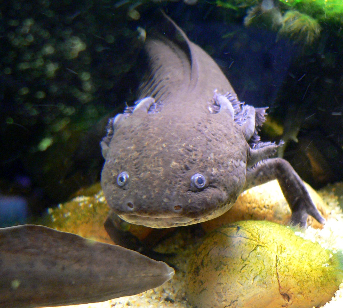 Photo of Ambystoma mexicanum (axolotl) at the Steinhart Aquarium in San Francisco